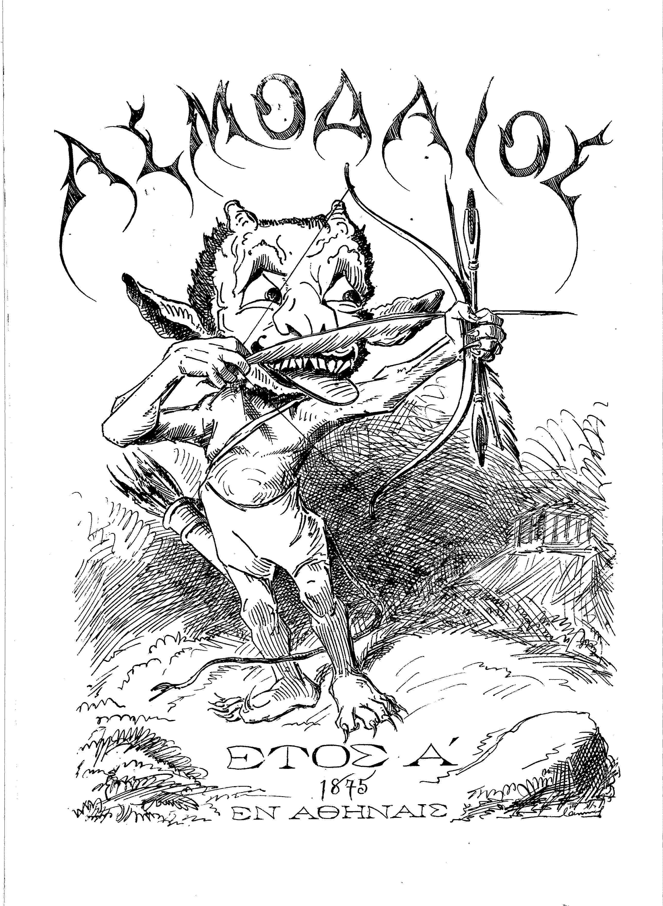 Front page of the first issue of Emmanuel Roides's satirical newspaper, Asmodaios (5th January 1875).